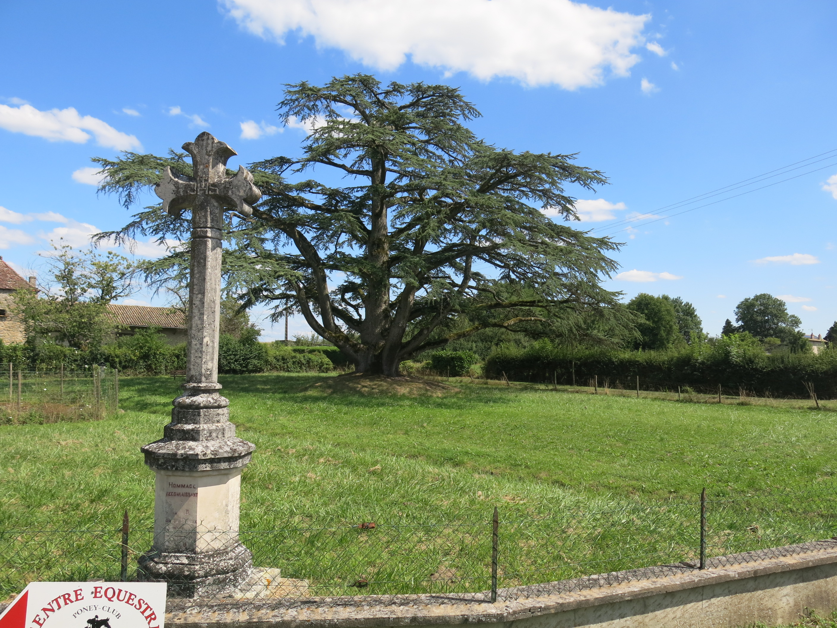 Cedrus of Libani of la Chaux in Cuisery (Saône-et-Loire, France).